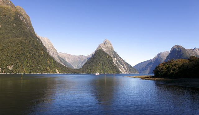 20110108_milford sound_9290ss